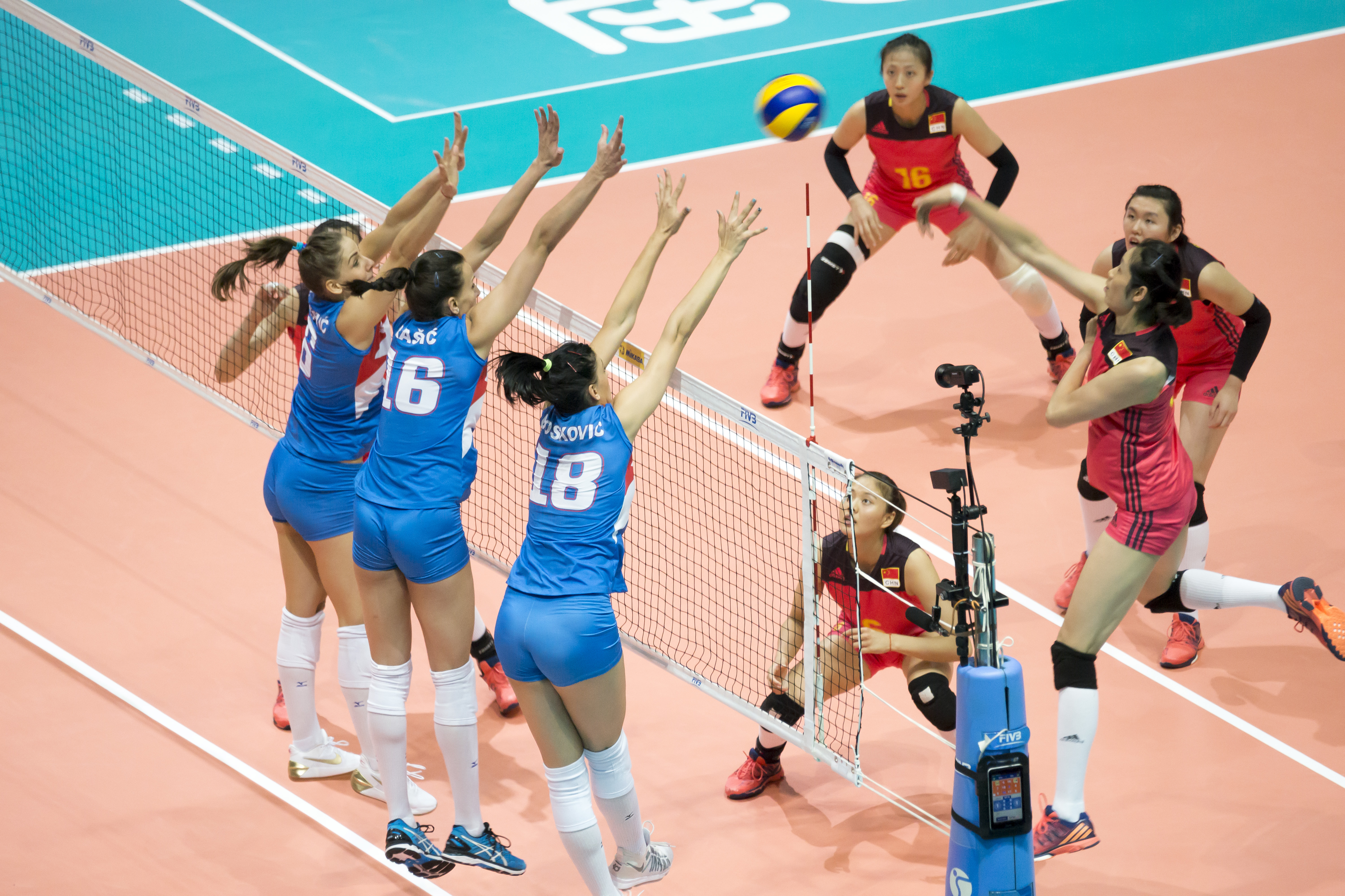 Triple block by Tijana Malešević, Milena Rašić and Tijana Bošković (team Serbia) to Zhu Ting (team China)